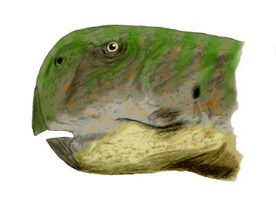 Head of Psittacosaurus meileyingensis, one of the numerous species of Psittacosaur from the Early Cretaceous of China, pencil drawing